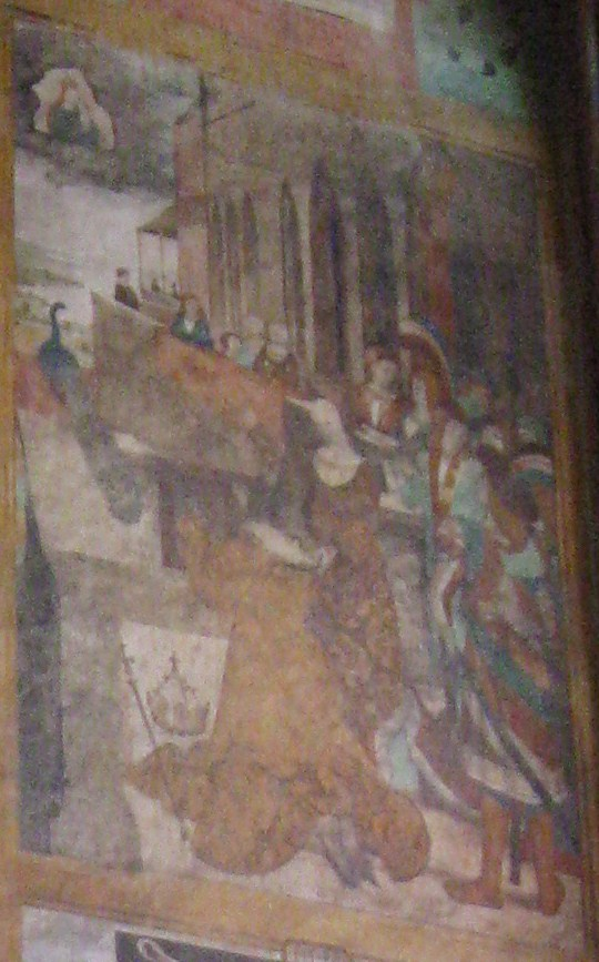 A detail of the fresco work in Smíškovská chapel in the Cathedral of Santa Barbara, Kutná Hora, Czech Republic. Frescoes where created between 1485 and 1492 (?), by unknown gothich master called as "Mistr Smíškovské kaple" (Master of Smíškovská Chapel). Picture cropped, without flash nor stative.